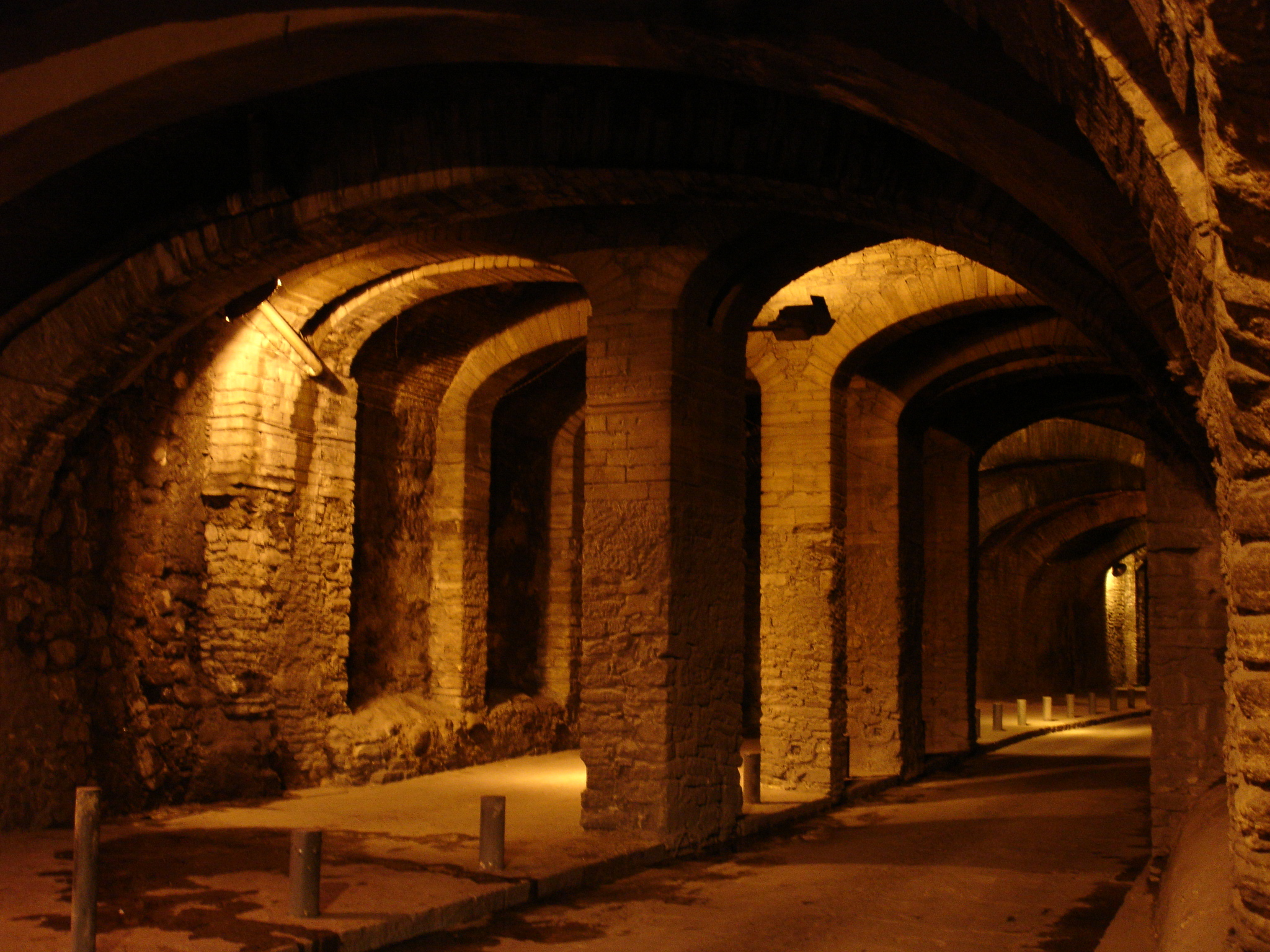 A street tunnel underneath the Mexican city of Guanajuato.